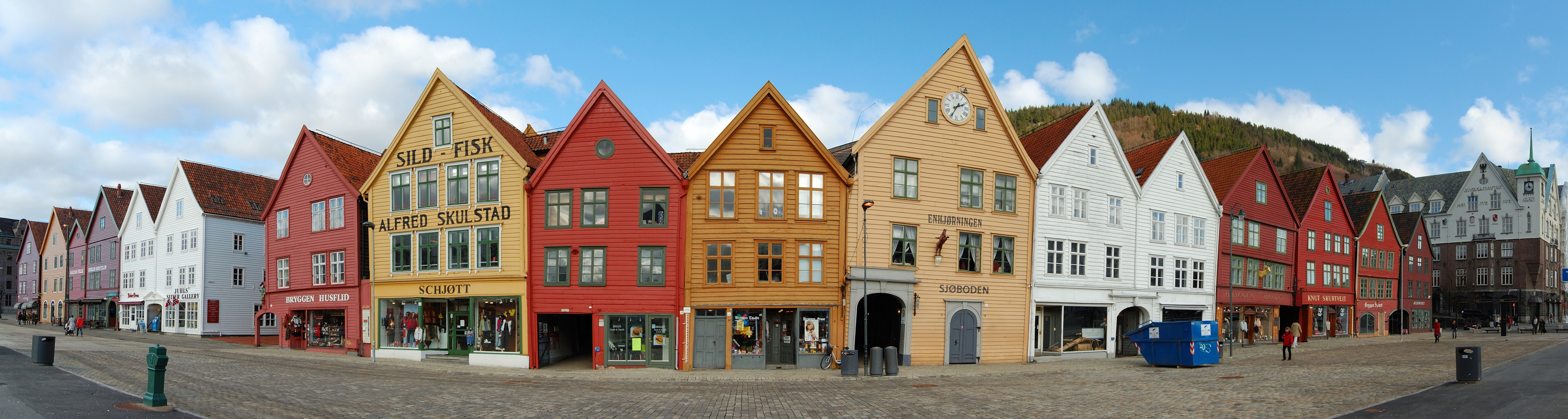 Panorama of the World heritage site of Bryggen in Bergen, Norway. This image was created with Hugin.